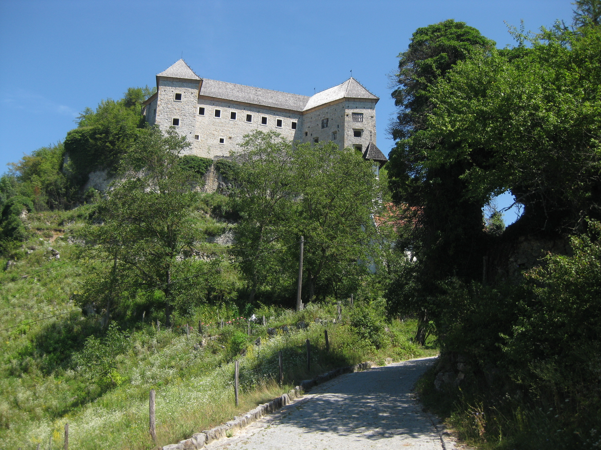 Kostel castle, Slovenia